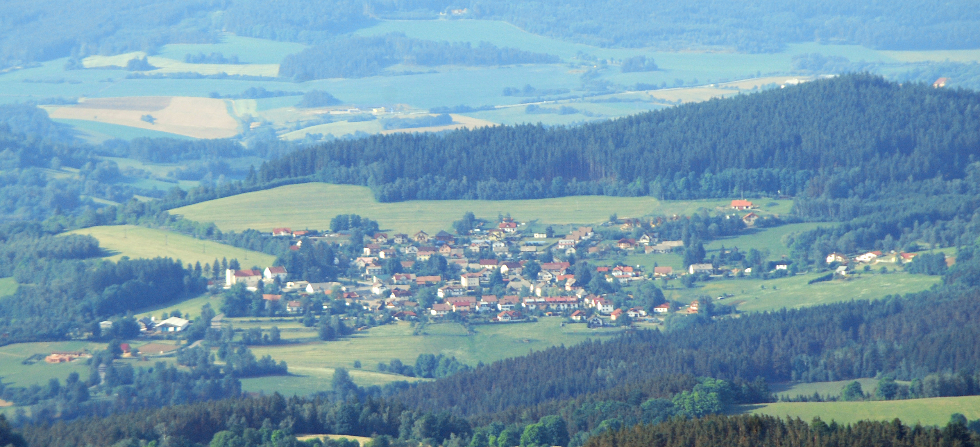 Svatá Maří from Boubin